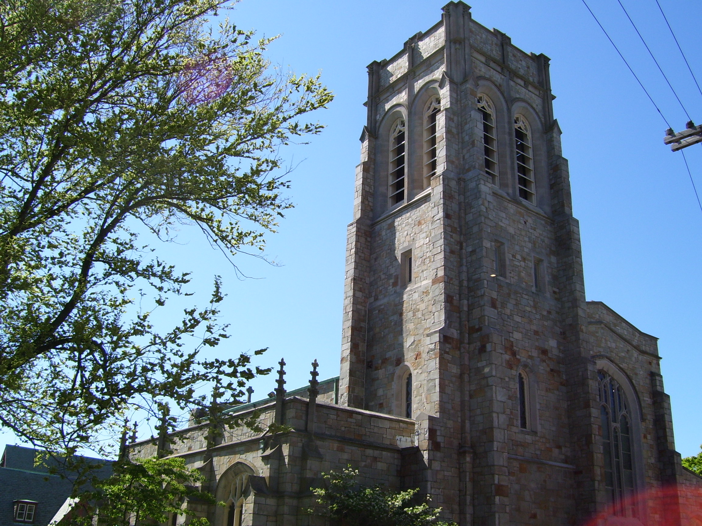 This is my 2008 photo of Emmanuel Church in Newport, RI.